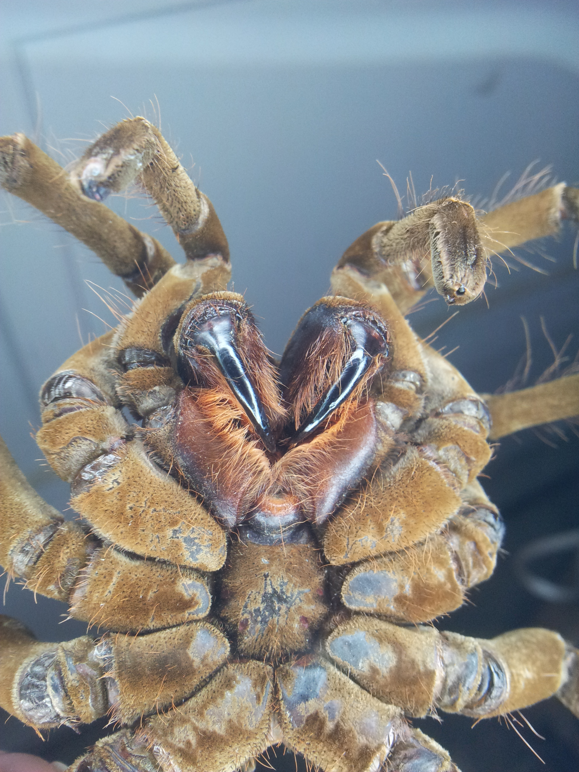 Captive adult female Goliath birdeater (Theraphosa blondi) molt